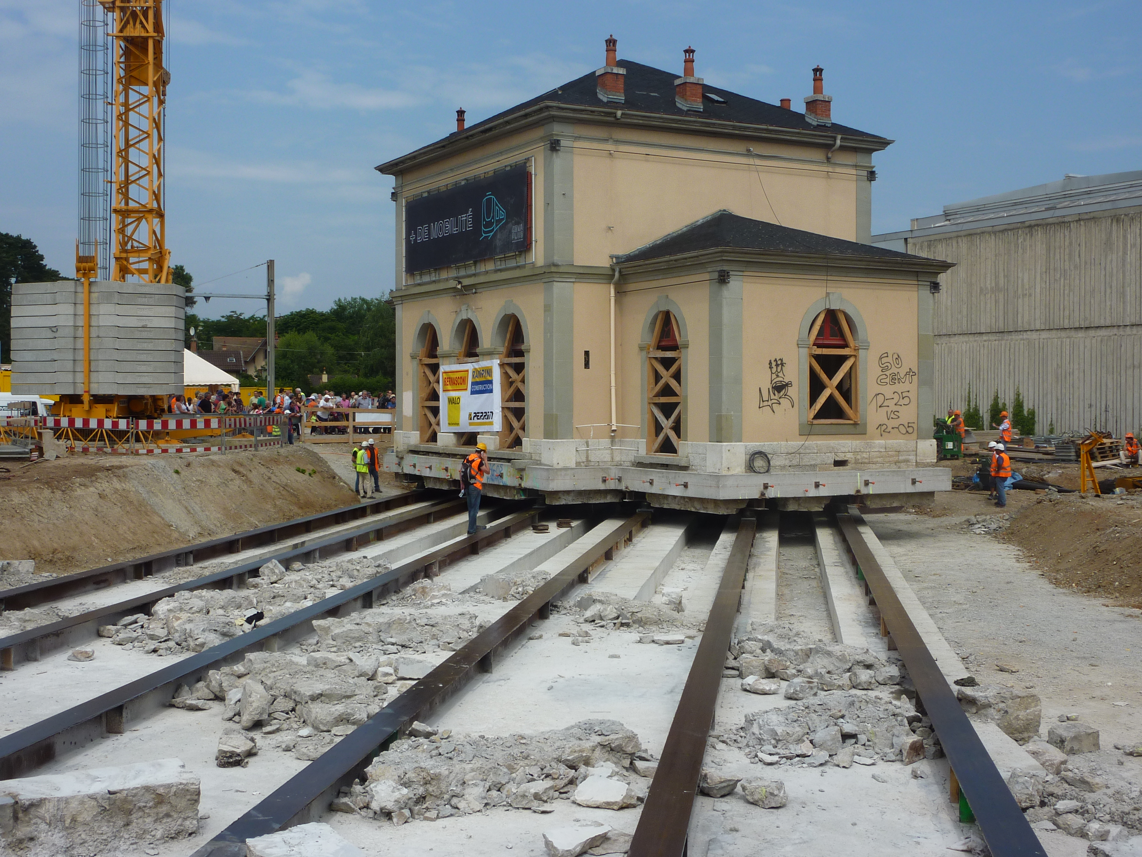 Move of the Chêne-Bourg train station in relation to CEVA rail project. Object location46° 11′ 47.89″ N, 6° 11′ 44.36″ E - Google Maps - Google Earth